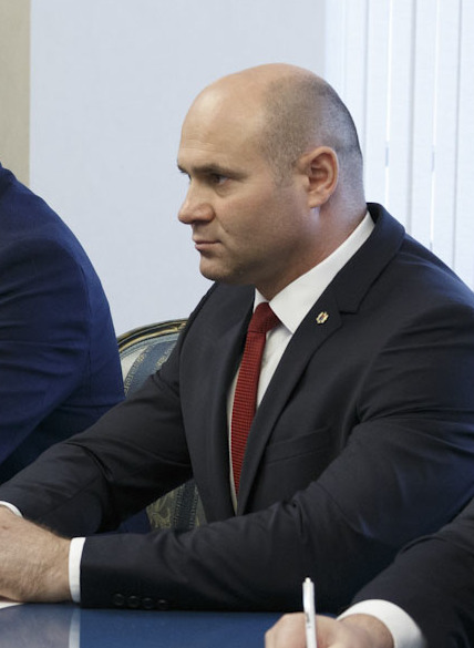 Глава российского военного ведомства передал президенту Молдавии рассекреченные документы, связанные с освобождением Молдавии от фашизма